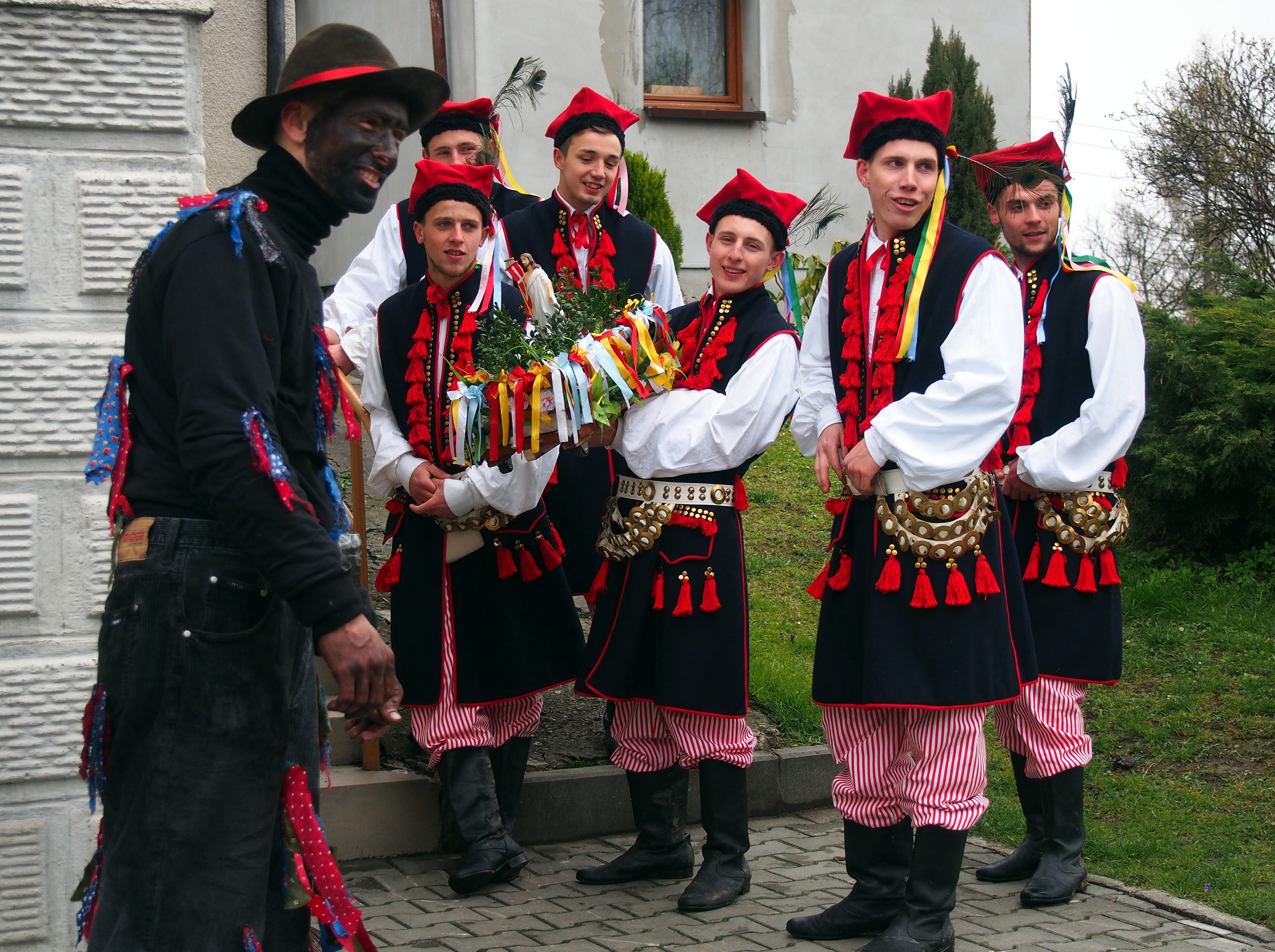 Siuda Baba, Polish folk tradition on Easter Monday, 6th April 2015, Lednica Górna, Poland. The ritual participant dressed up as Black Gypsy with a group of men dressed in folk costumes from Kraków wait for the signal from the house residents to start the performance.